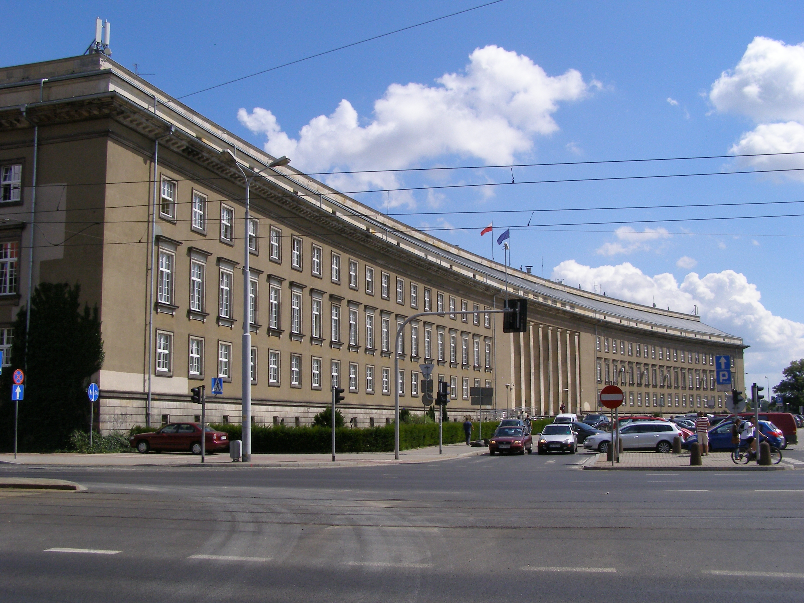 Wrocław - Lower Silesian Voivodeship Office